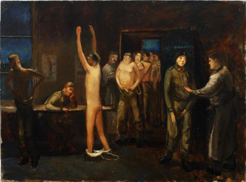 Recruit's Progress- Medical Inspection image: New recruits are lined up for inspection; all are stripped to the waist. The inspector sits at a table, head leaning on an elbow, while a recruit faces him, arms in the air and trousers round his ankles. Foreground right, a recruit, full clothed and nervous, talks to an official.